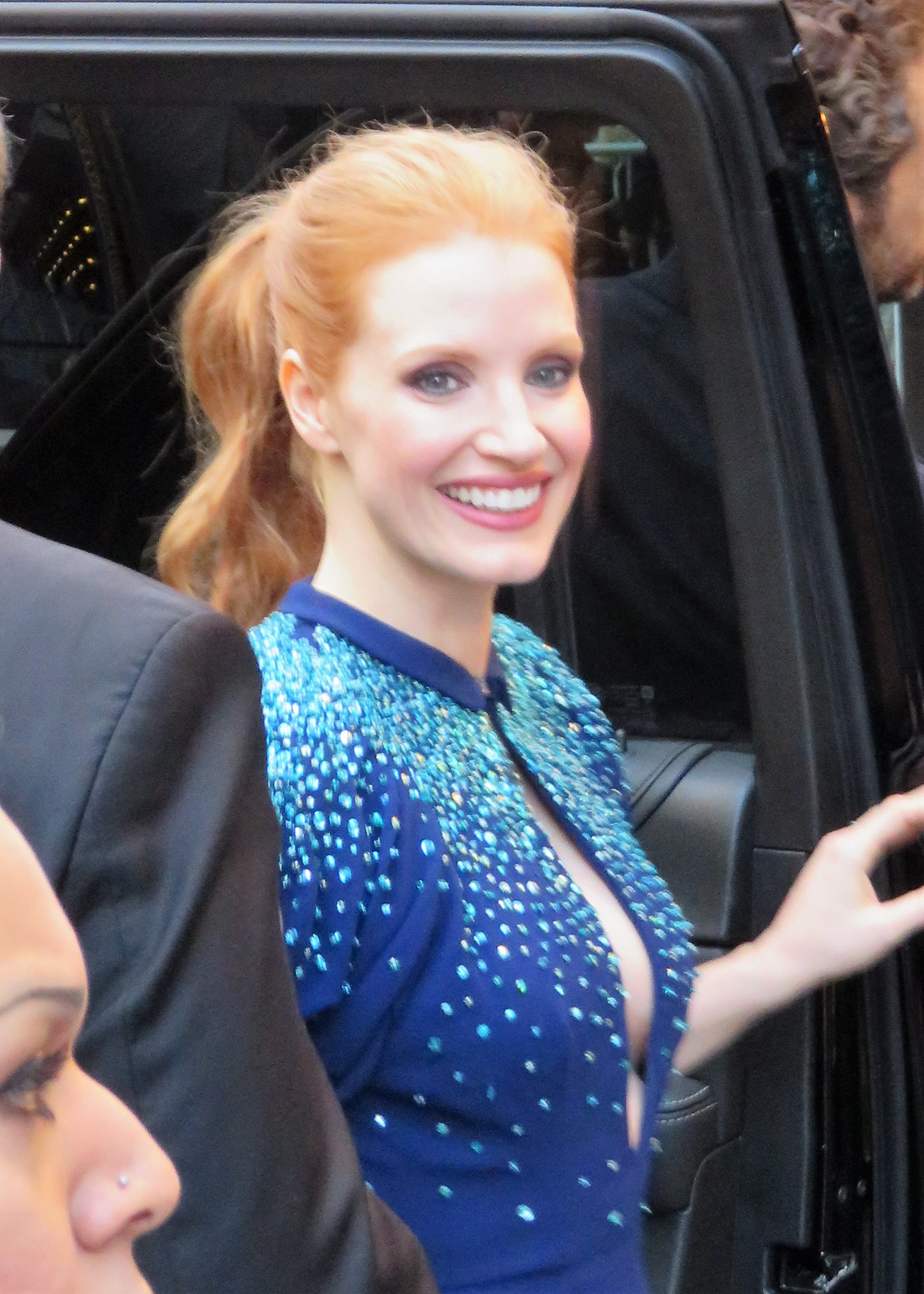 Jessica Chastain at the premiere of Molly's Game, 2017 Toronto Film Festival